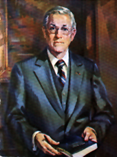 Ray Roberts, US Representative from Texas